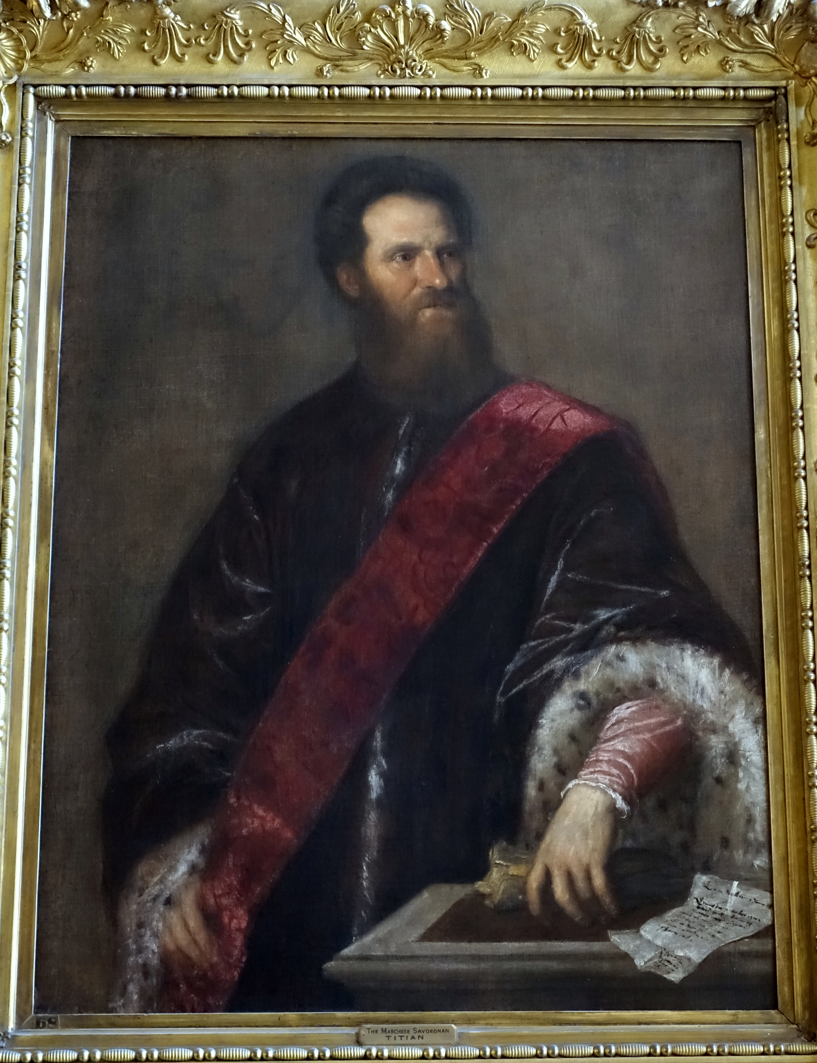 Saloon - Kingston Lacy - Dorset, England.